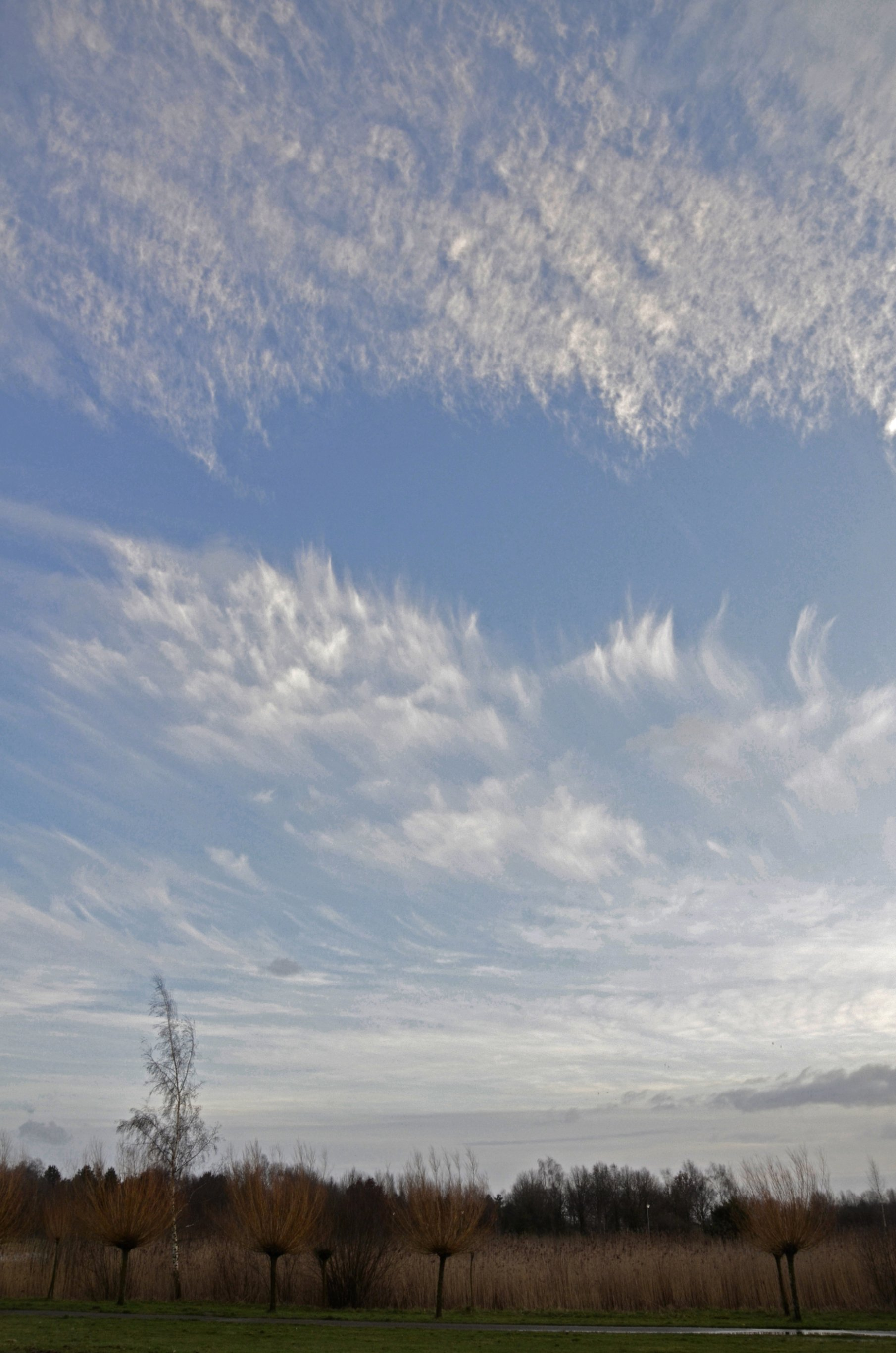 Cirrus floccus (upper side) and cirrus uncinus